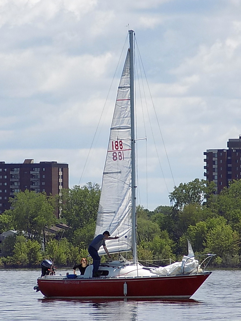 A Mirage 24 sailboat named Reflection.